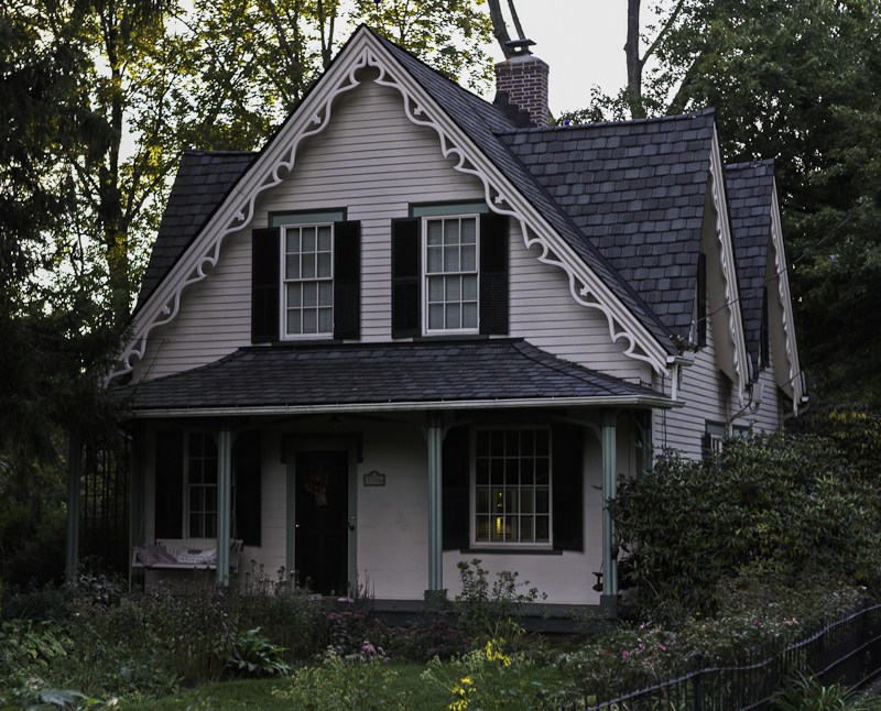 William H. Seymour House